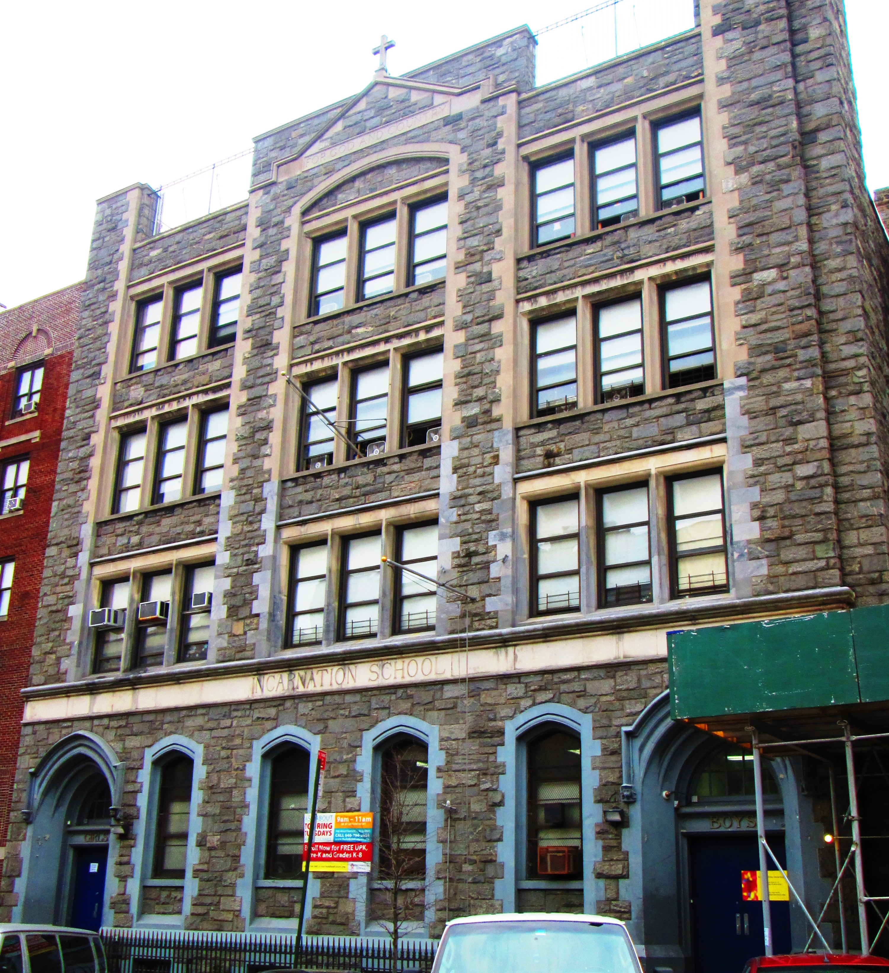 The Incarnation School, located at 570 West 175th Street between St. Nicholas and Audubon Avenues in the Washington Heights neighborhood of Manhattan, New York City, is the parish school of the Roman Catholic Church of the Incarnation, at 1290 St. Nicholas Avenue (Juan Pable Duarte Boulevard). The school was established in 1910.